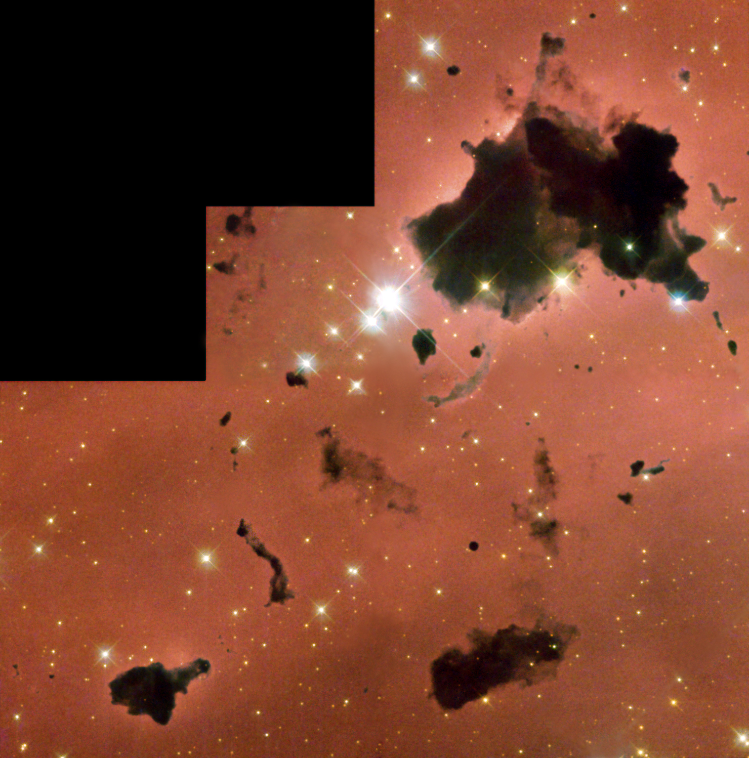 Strangely glowing dark clouds float serenely in this remarkable and beautiful image taken with the Hubble Space Telescope. These dense, opaque dust clouds — known as globules — are silhouetted against nearby bright stars in the busy star-forming region, IC 2944. Astronomer A.D. Thackeray first spied the globules in IC 2944 in 1950. Globules like these have been known since Dutch-American astronomer Bart Bok first drew attention to such objects in 1947. But astronomers still know very little about their origin and nature, except that they are generally associated with areas of star formation, called HII regions due to the presence of hydrogen gas. IC 2944 is filled with gas and dust that is illuminated and heated by a loose cluster of massive stars. These stars are much hotter and much more massive than our Sun.